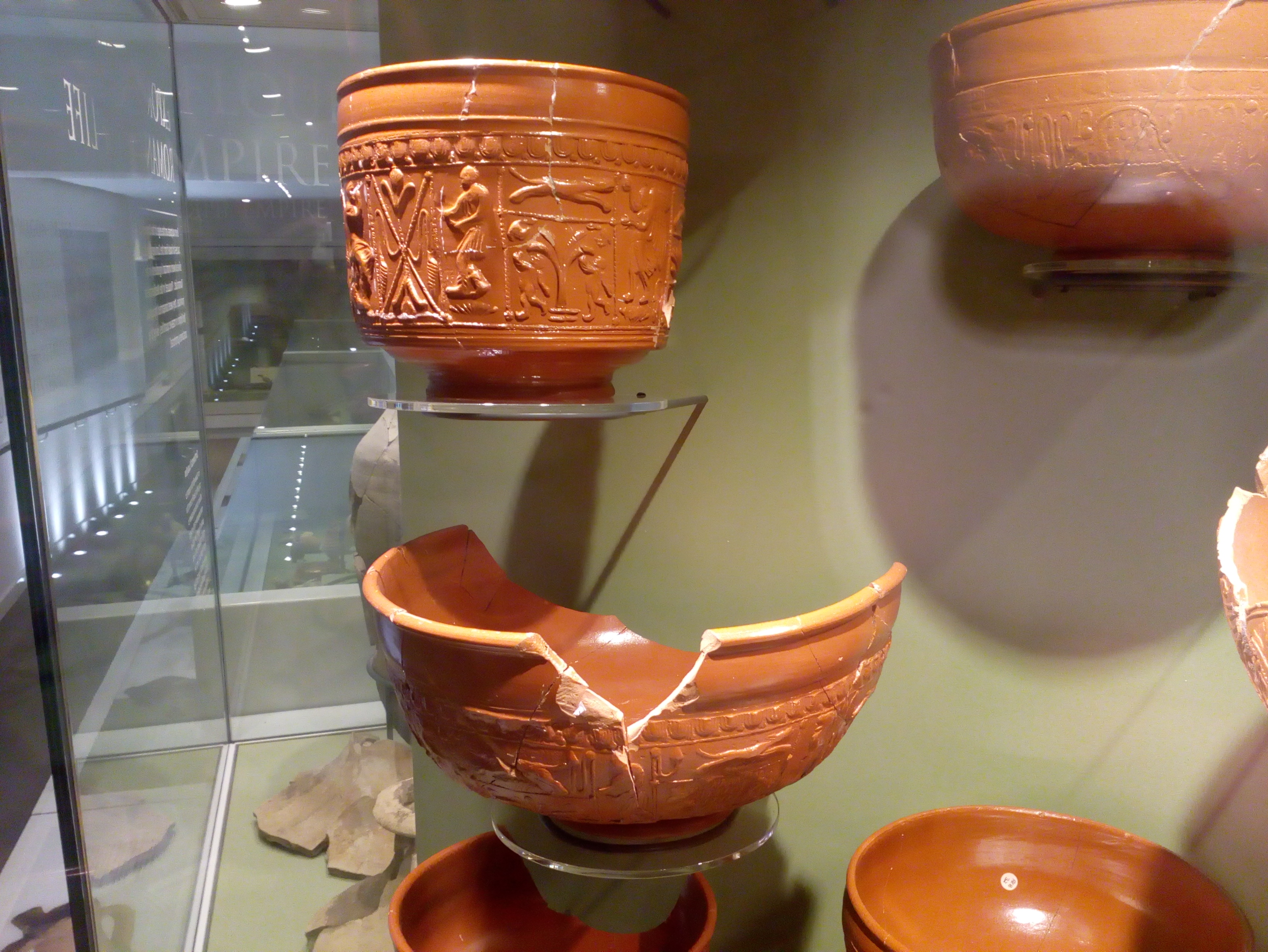 Vindalanda finds in the museum in 2017